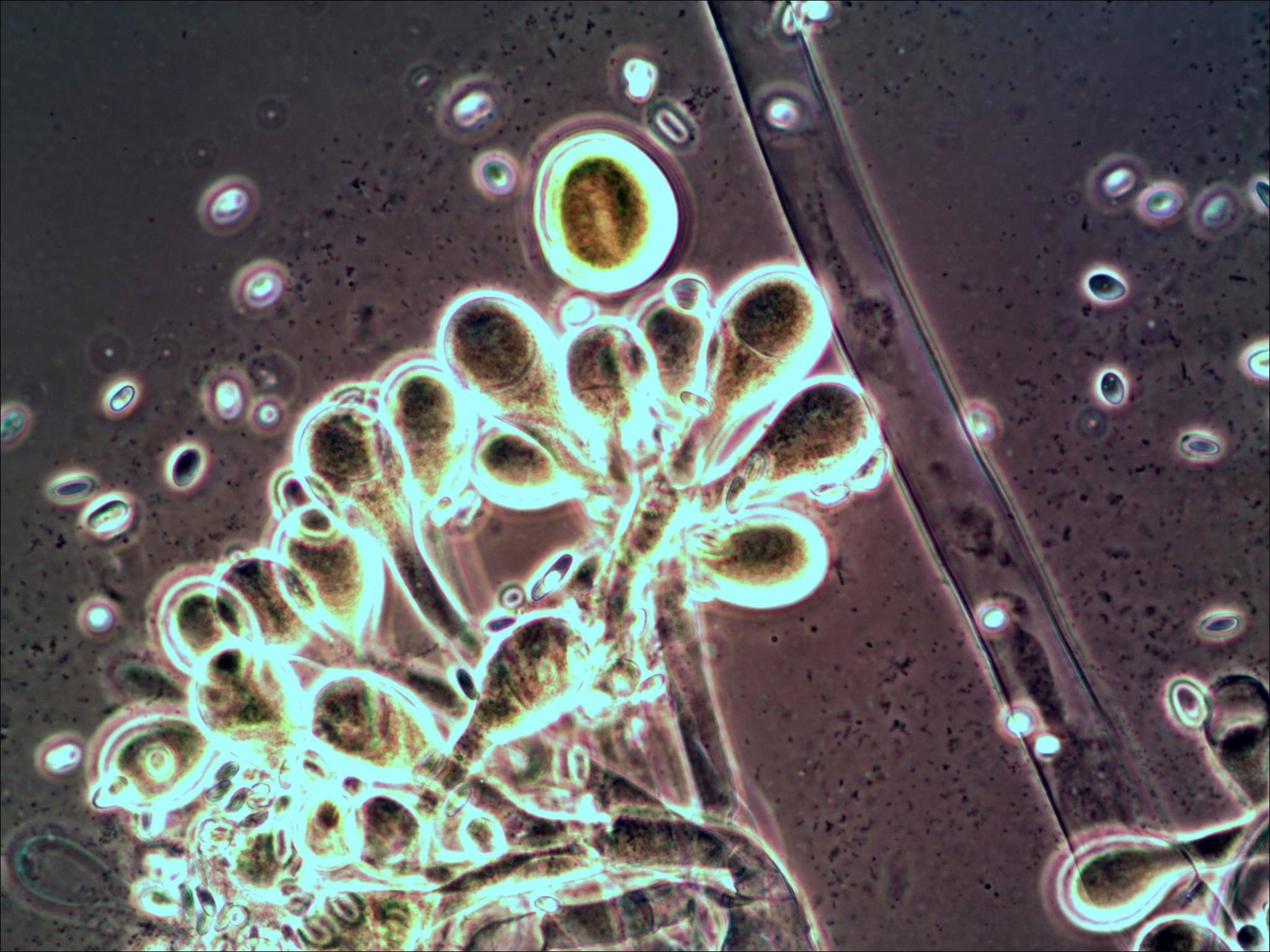 The image shows sporangioles